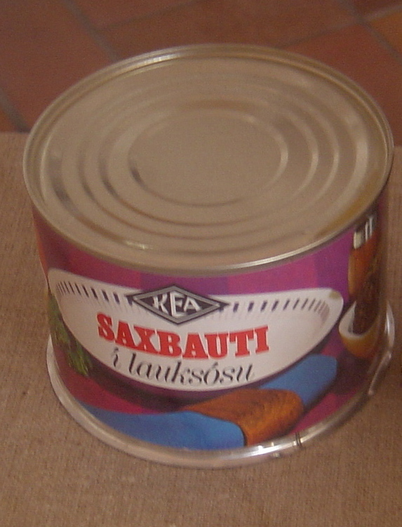 Saxbauti, Icelandic canned beef patties in onion gravy, made by Kjötiðnaðarstöð KEA, Akureyri, ca. 1980.